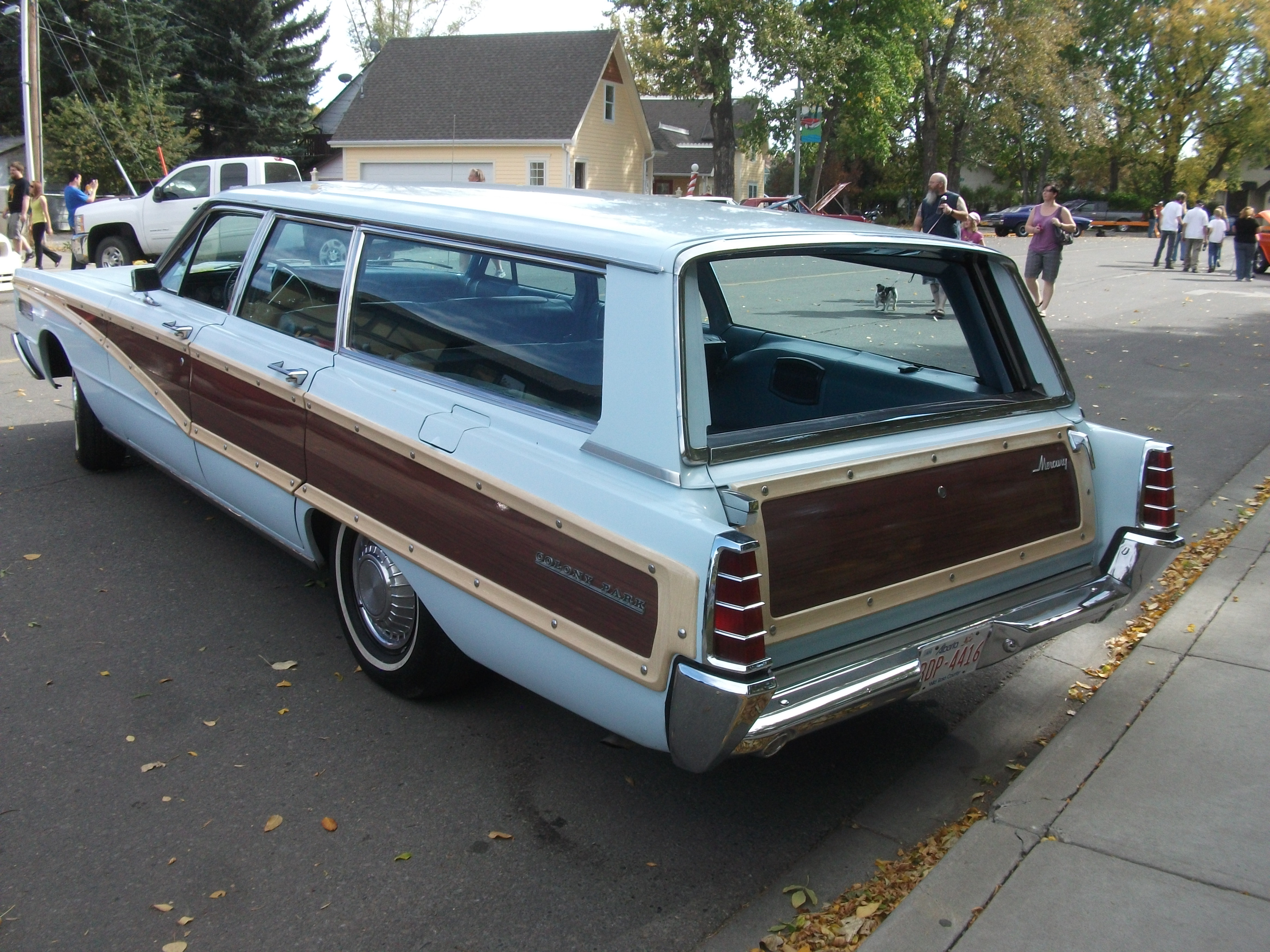 1966 Mercury Colony Park station wagon with the fake wood panels on the side